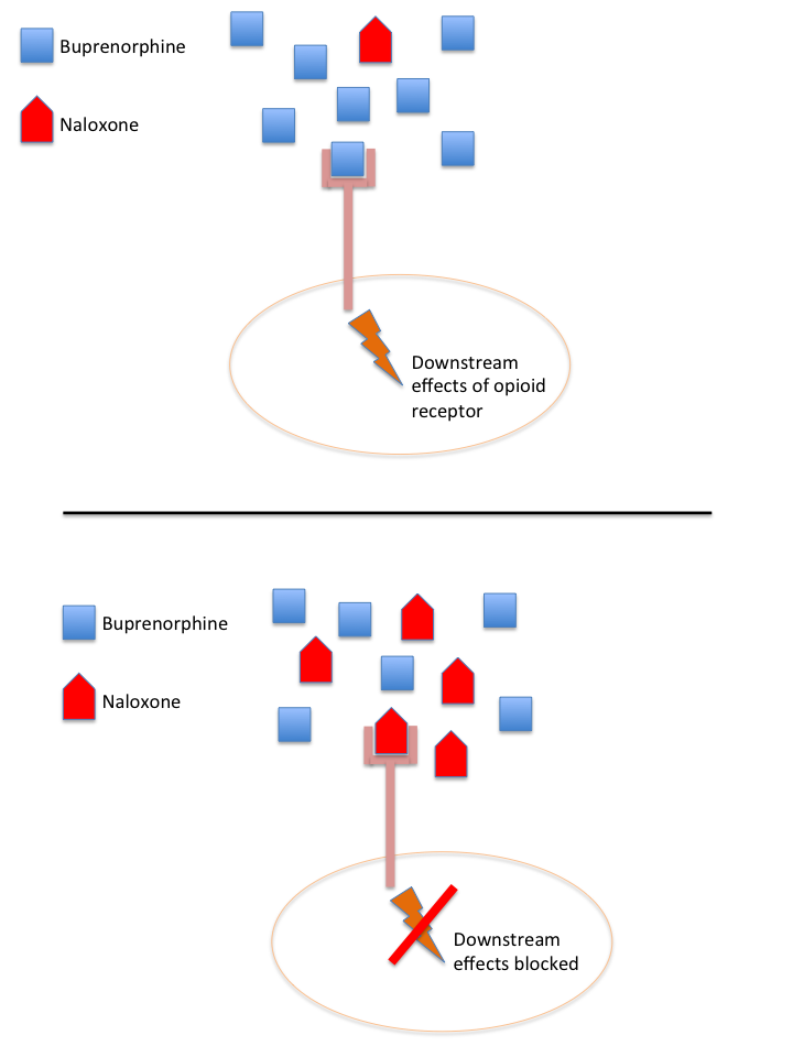 Graphic showing simplified action of buprenorphine/naloxone acting at opioid receptor when taken sublingually (top) vs intravenously (bottom)